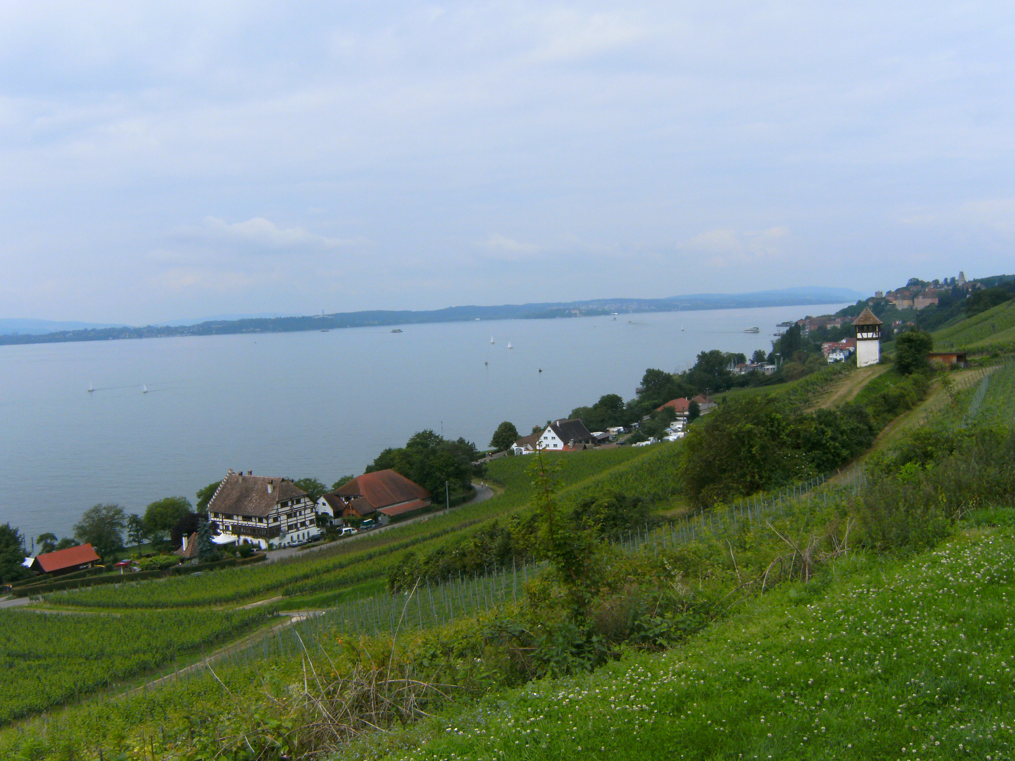 View from German war cemetery Meersburg-Lerchenberg, Germany, to wineyard Haltnau and Lake Constance